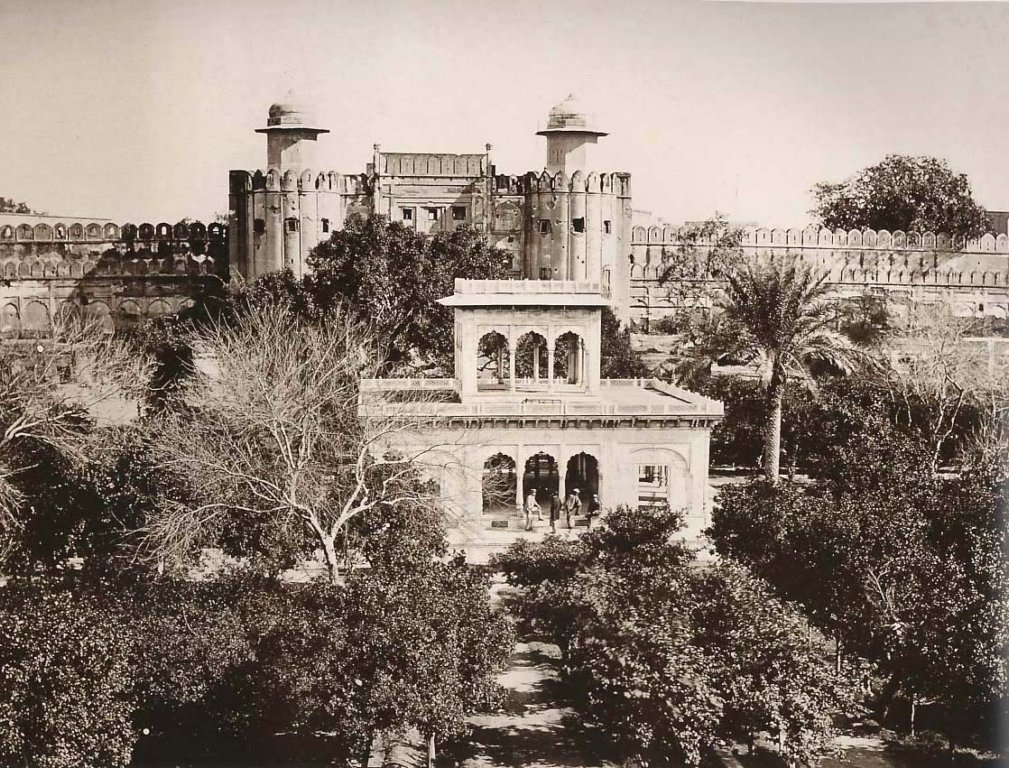 Lahore fort 1870 scaned from a book Historic Images of Pakistan for more images go to